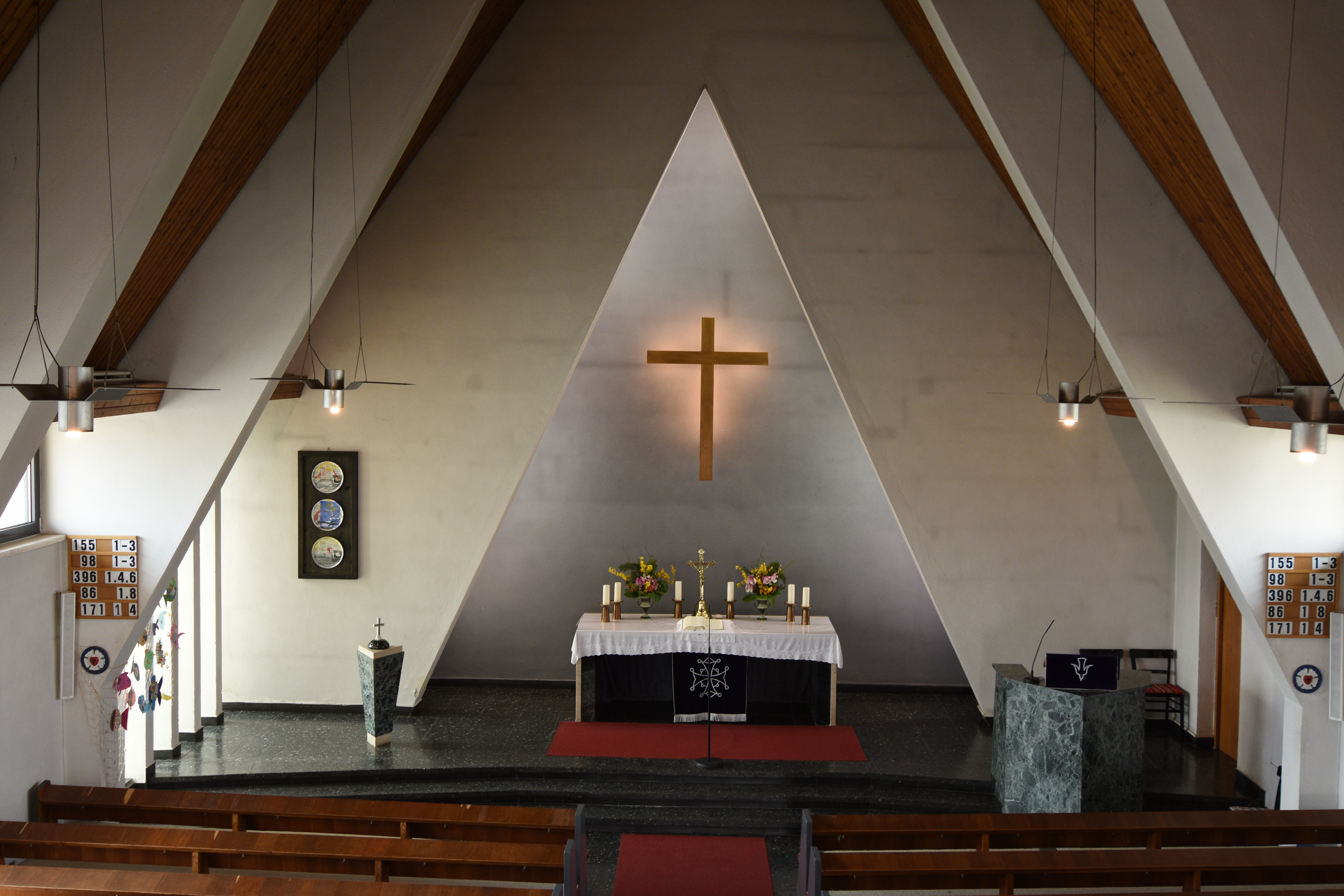 Church Christuskirche (Stoob) - Interior